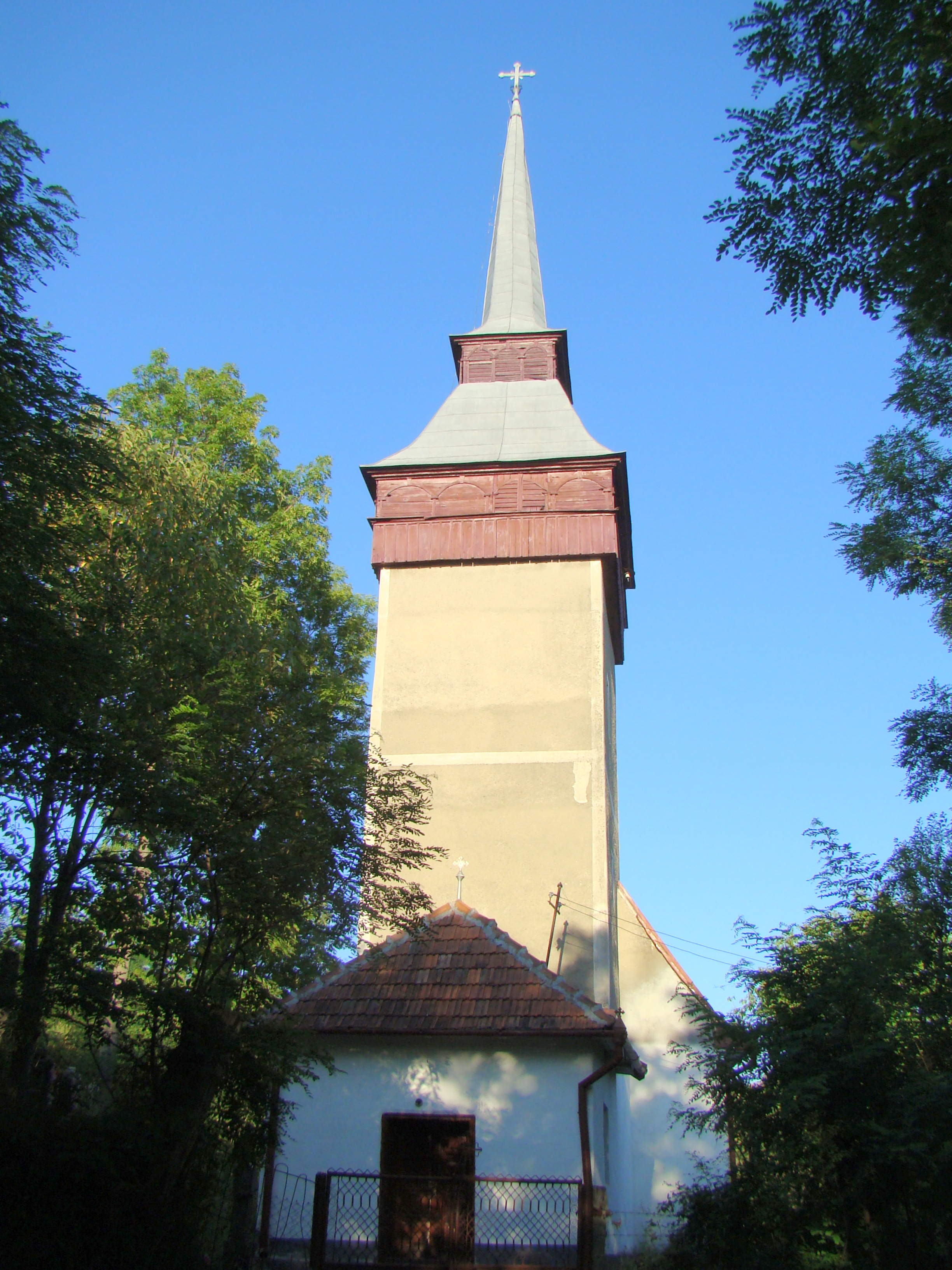 Saint Nicholas church in Cib, Alba county, Romania